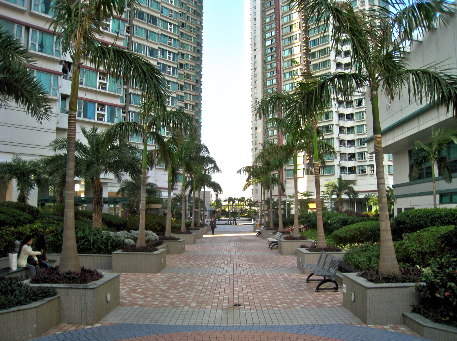 Metro Harbour View 港灣豪庭